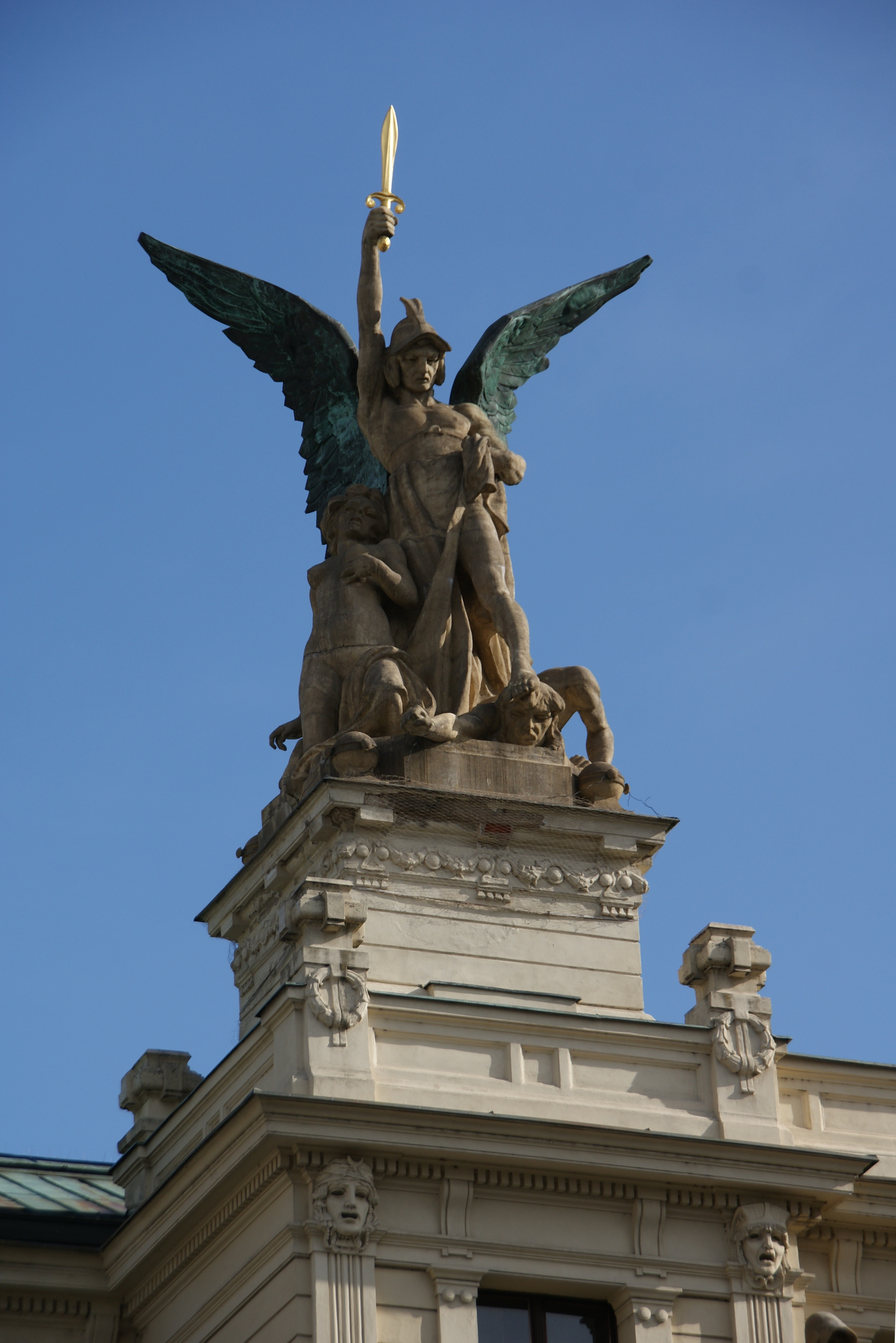 Scupture, Vinohrady Theatre, Prague